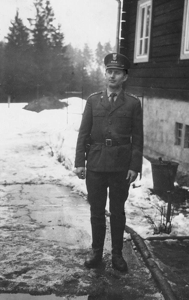 Border Protection Forces in Jaworzynka